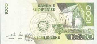 1000 lek (reverse)